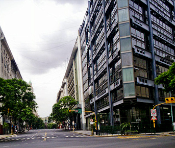 Cropped version of File:Diagonal Sur.jpg